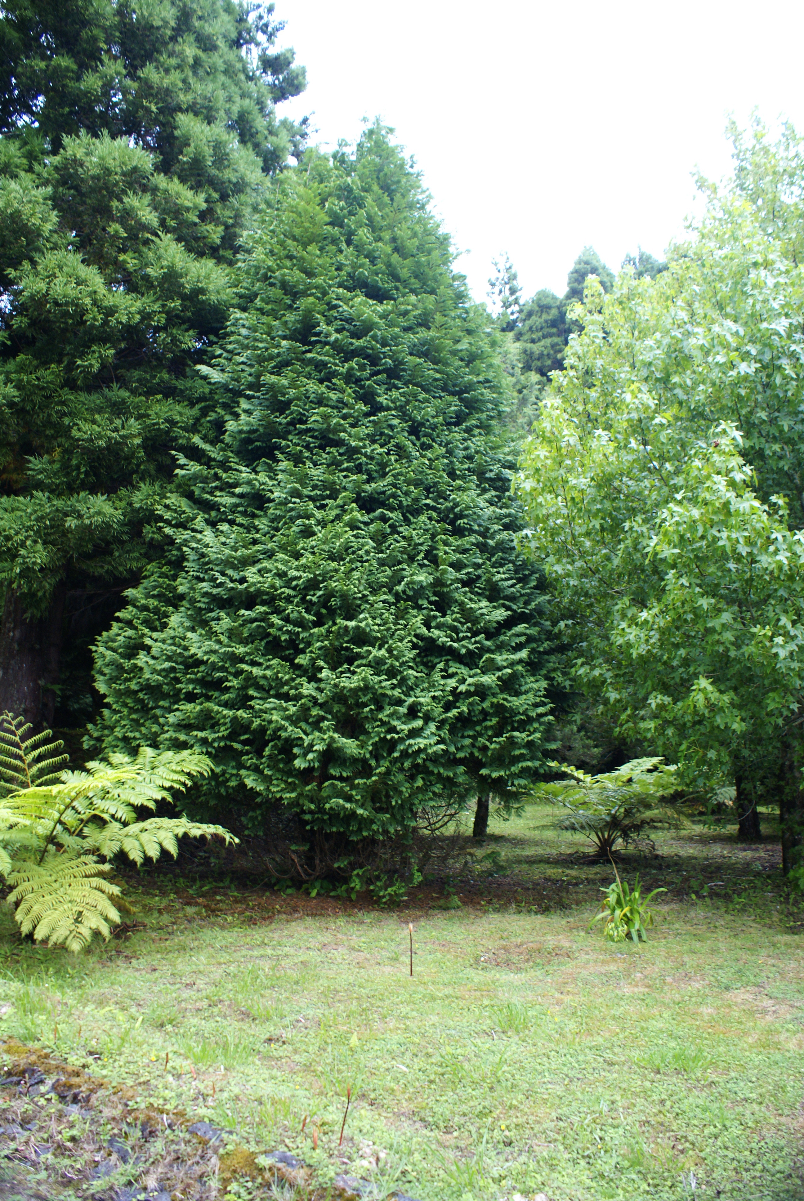 Reserva florestal da Falca, floresta, concelho da Horta, ilha do Faial, Açores, Portugal